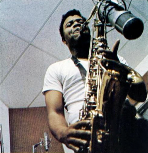 Trade ad for Junior Walker's single "(I'm A) Road Runner".To better adapt it to his respective Wikipedia article, the ad was cropped and cleaned in a graphics editing program. The original can be viewed at the source below.